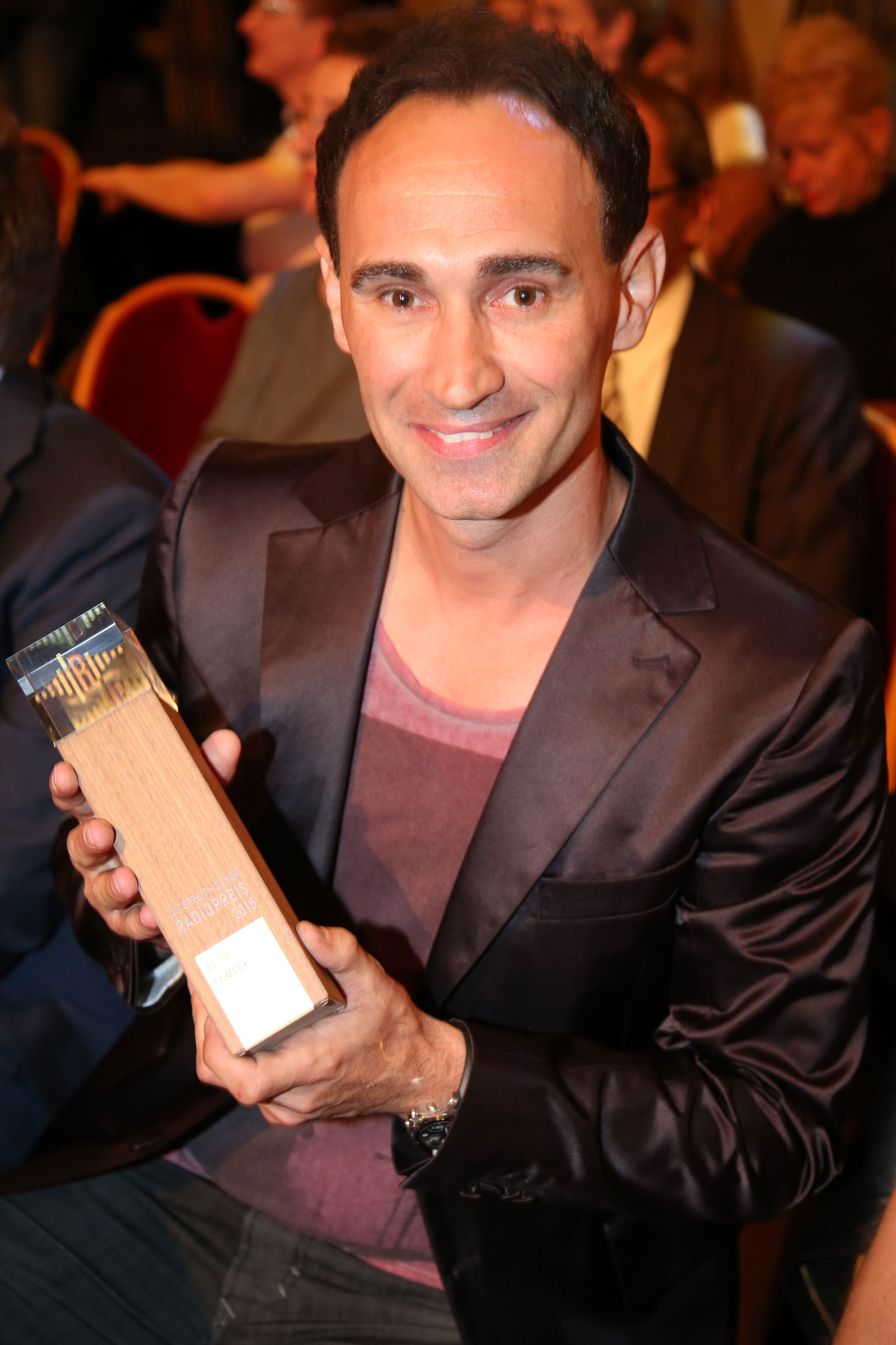 16Kulis_Gernot-Callboy-5525